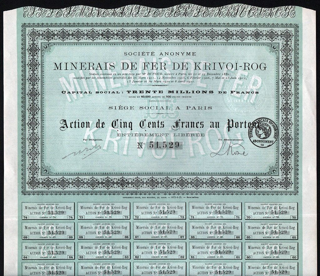 Krivoi Rog French Iron Mining Company Stocks